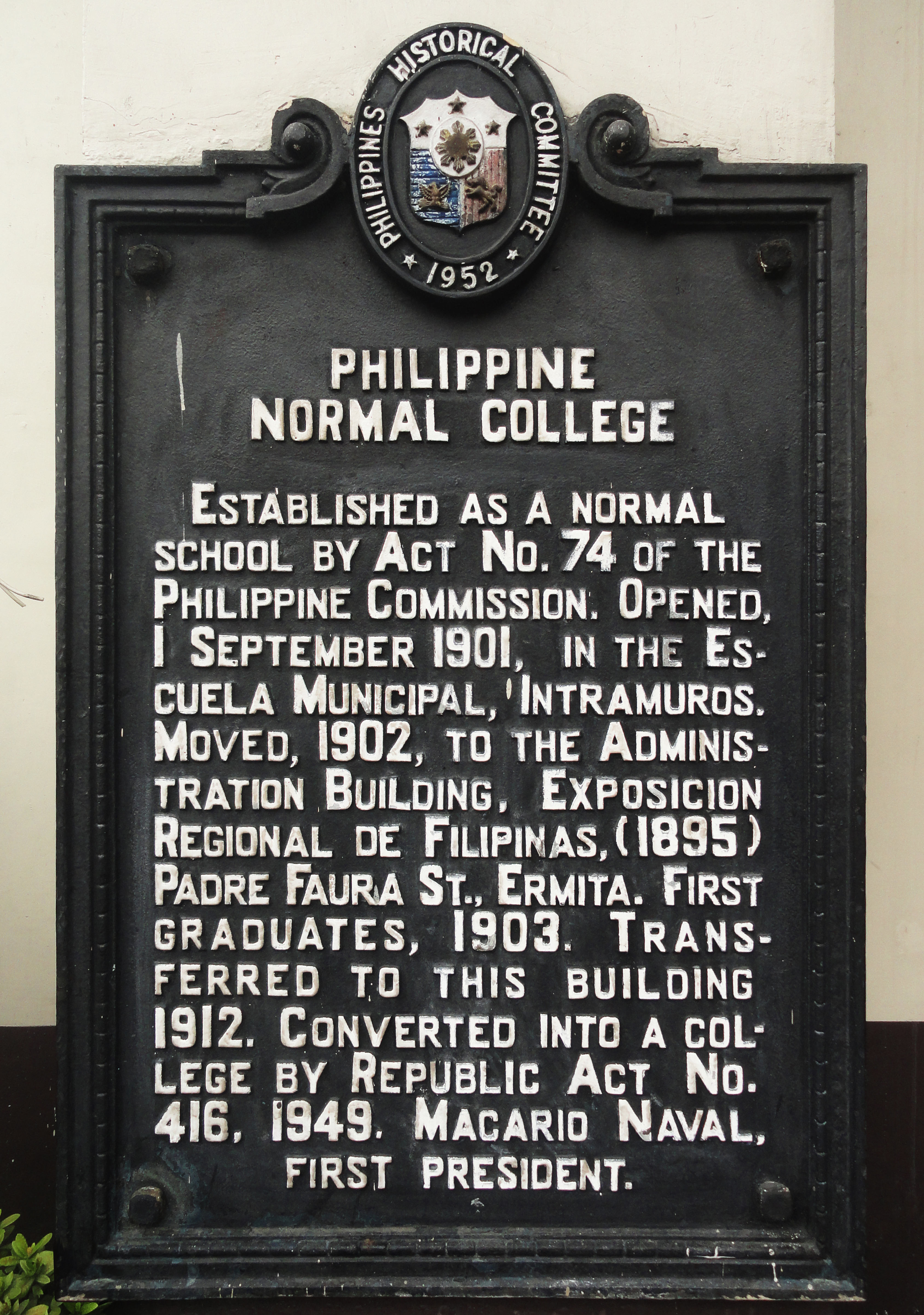 PhilNormalCollege HistoricalMarker Marker